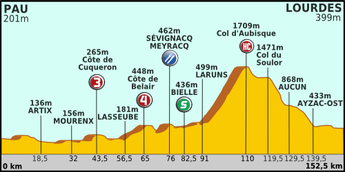 Profil of the 13th stage of the Tour de France 2011